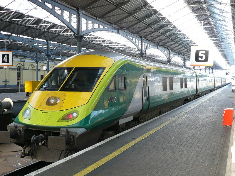 Intercity at Heuston station, DVT 4005 at the rear